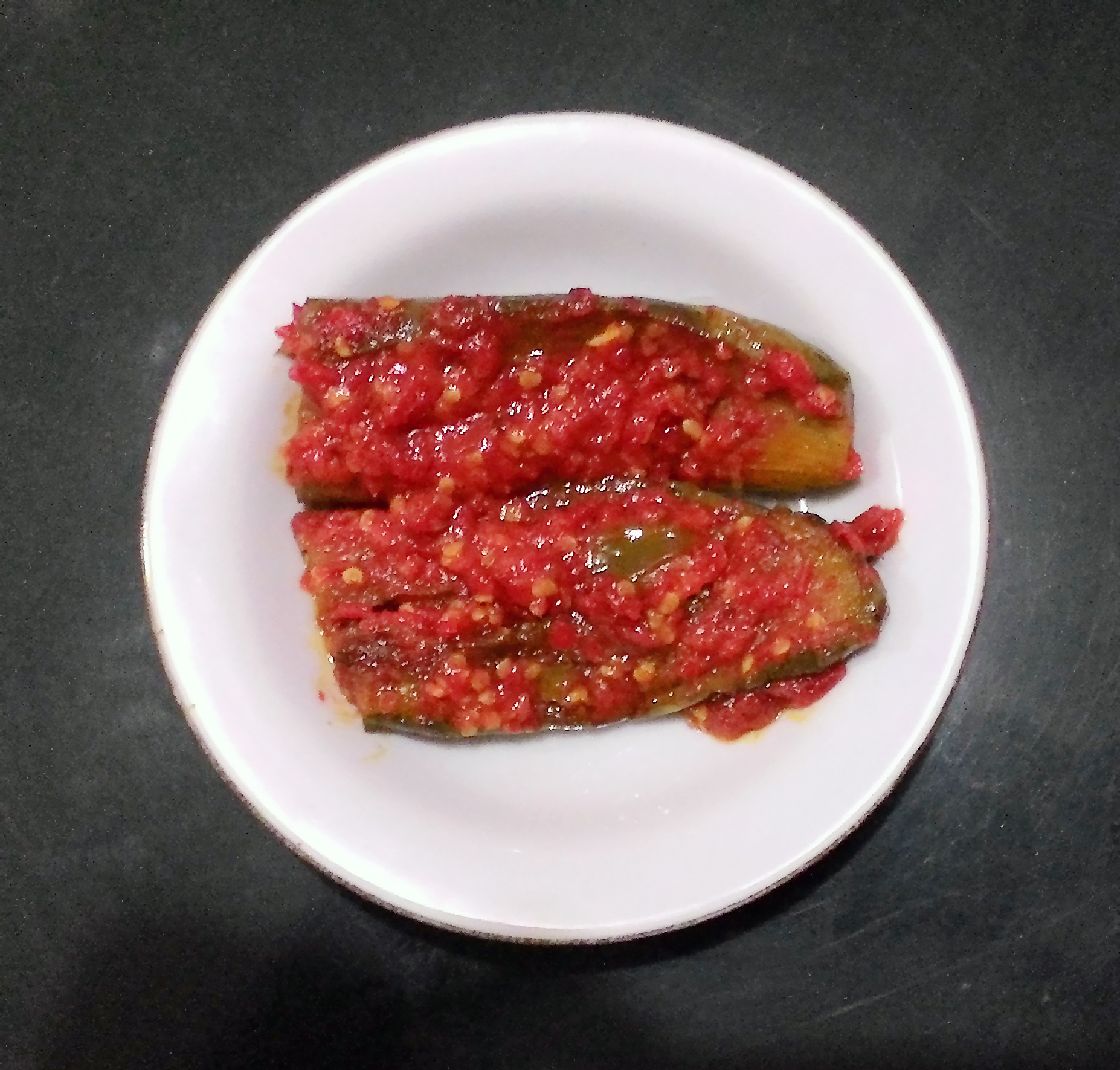 Home made terong balado, eggplant in spicy balado red hot chili pepper sauce, served in Jakarta. Terong balado is a Minangkabau cuisine, Indonesia.